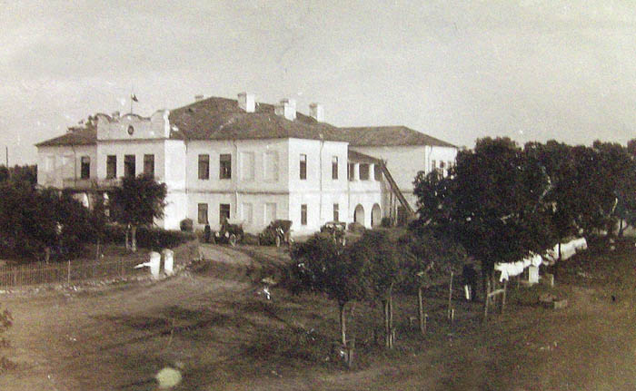 Vintage photo of the Cepleniţa Mansion, dating from the interwar period. Is public domain because of this age.